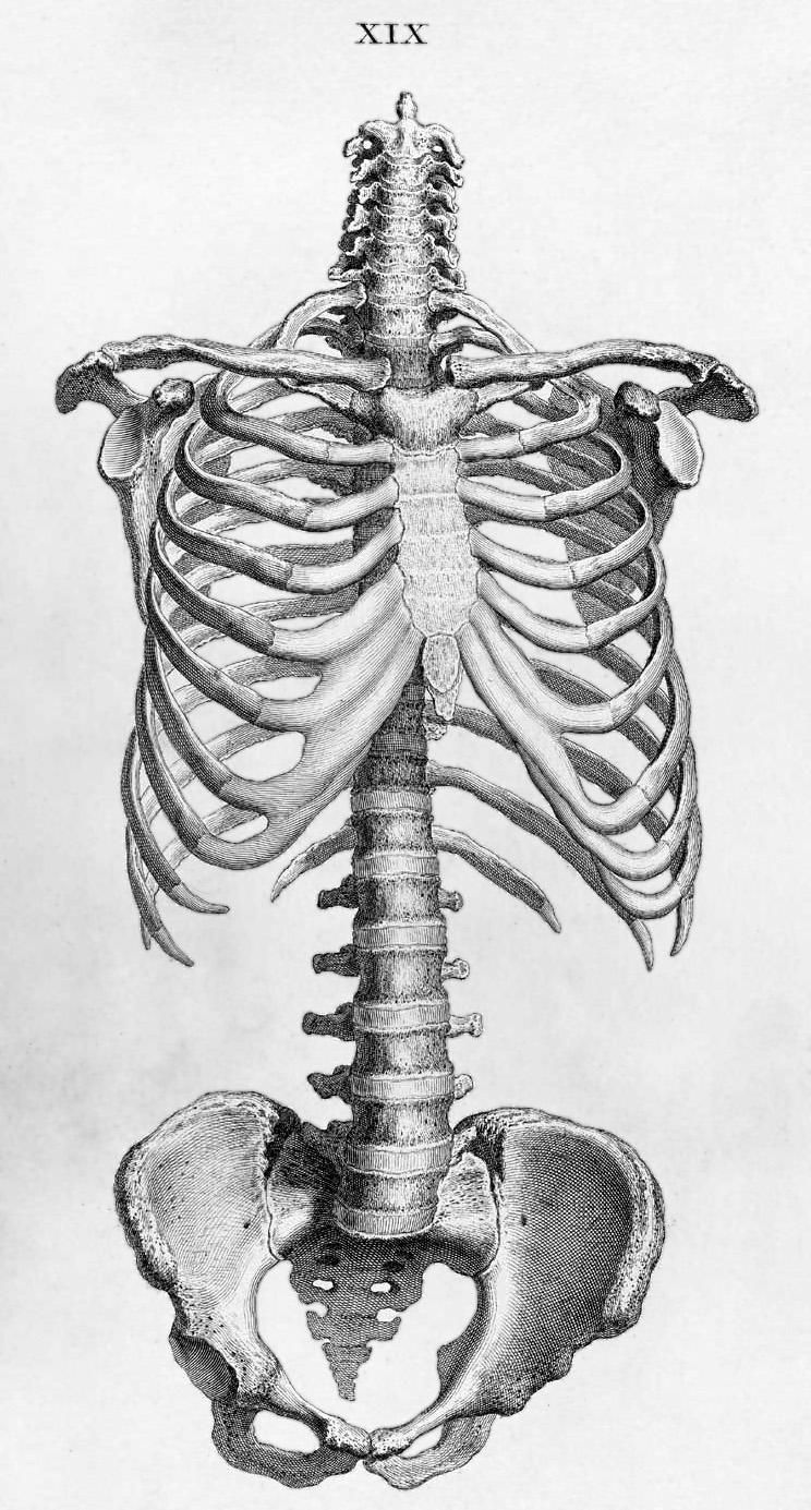 William Cheselden: Osteographia, or The anatomy of the bones. Uploader=Kuebi 17:52, 2 April 2007 (UTC)